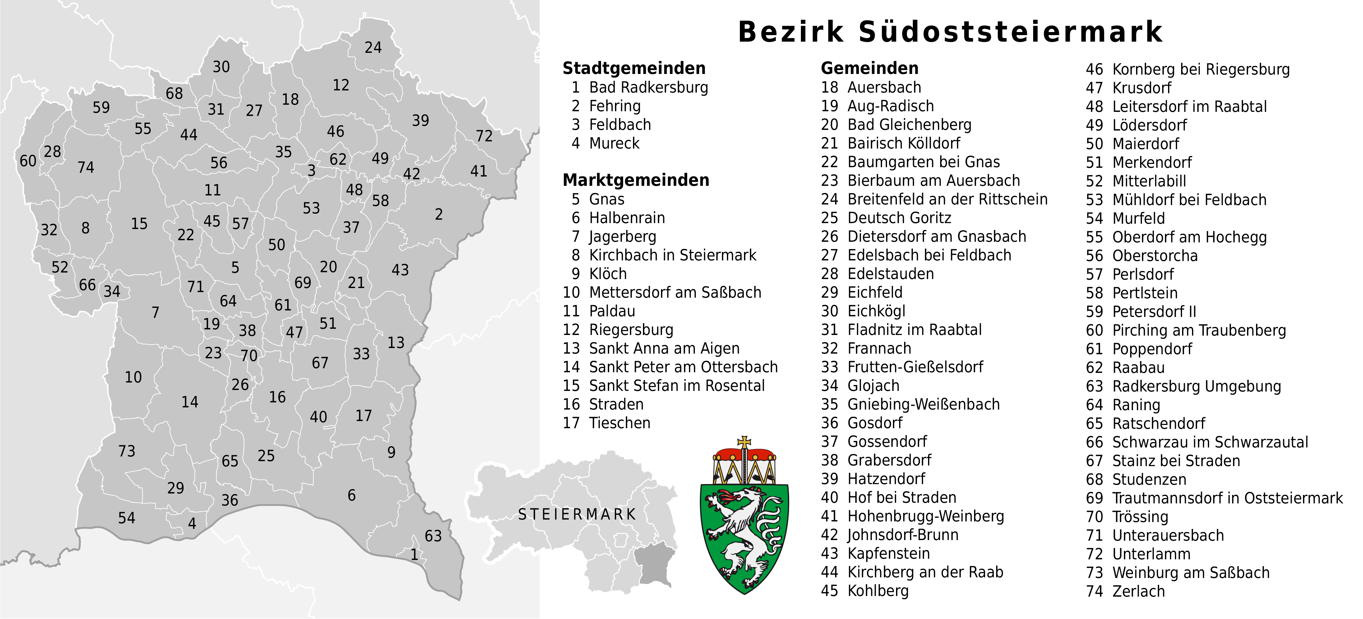 Map of the Bezirk Oststeiermark with names of the municipalities